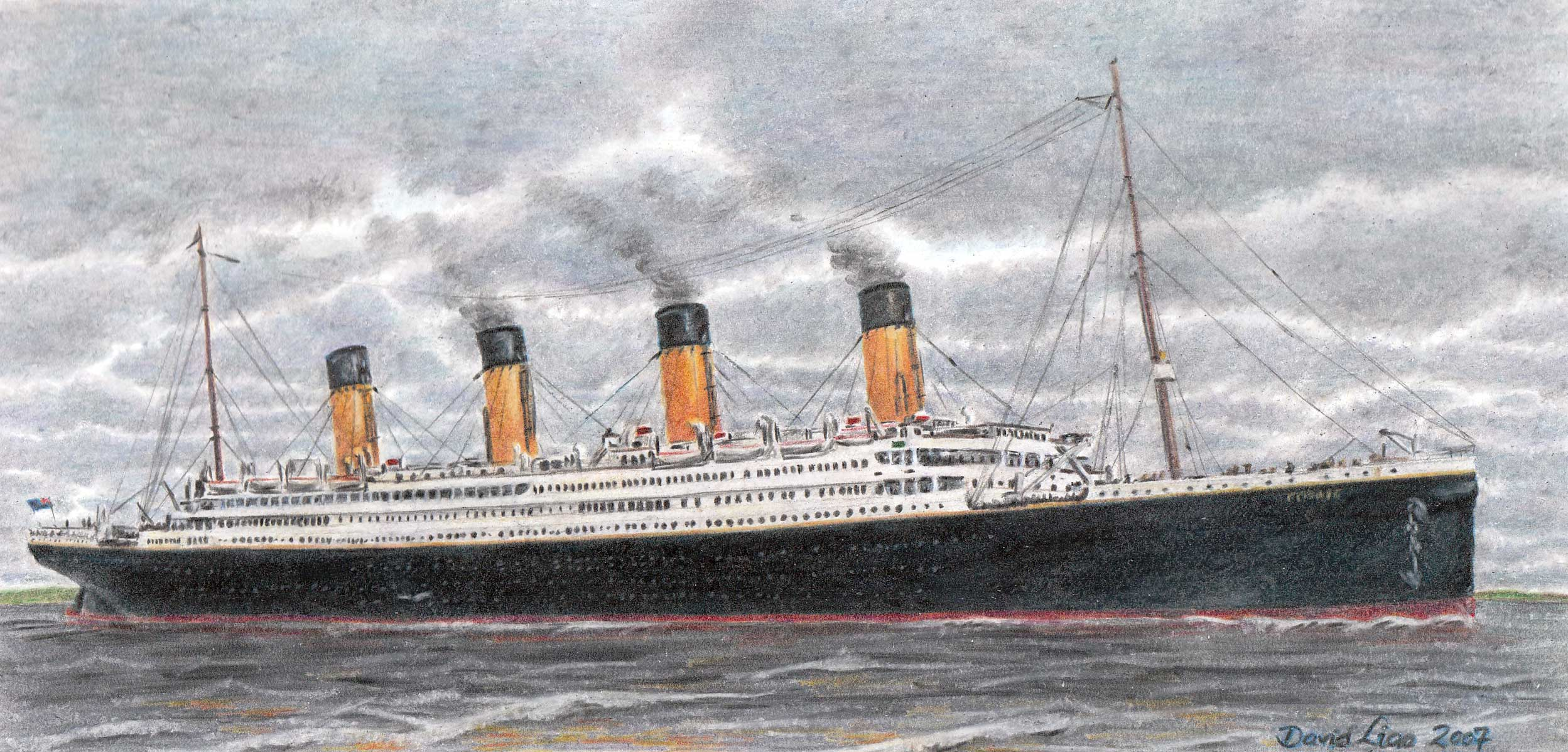 R.M.S. Titanic off the Isle of Wight on 1912 April 10, PrismaColor Premier sketch, 4.75" by 9" Plate Bristol, based on photograph by Frank Beken of Cowes (the photograph itself belongs to the public domain)